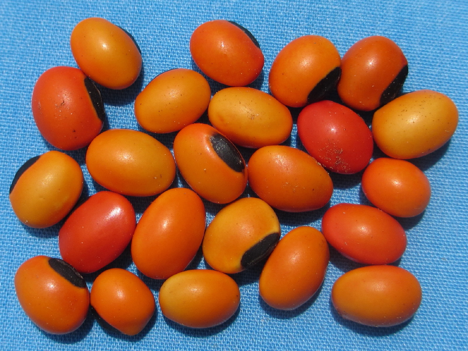 Seeds are rather pale orange, with black around the hilum. Erythrina haerdii.